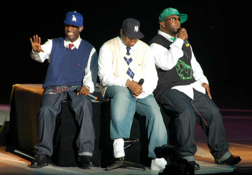 Boyz II Men at the Arena of Stars amphitheatre in Genting Highlands, Malaysia.